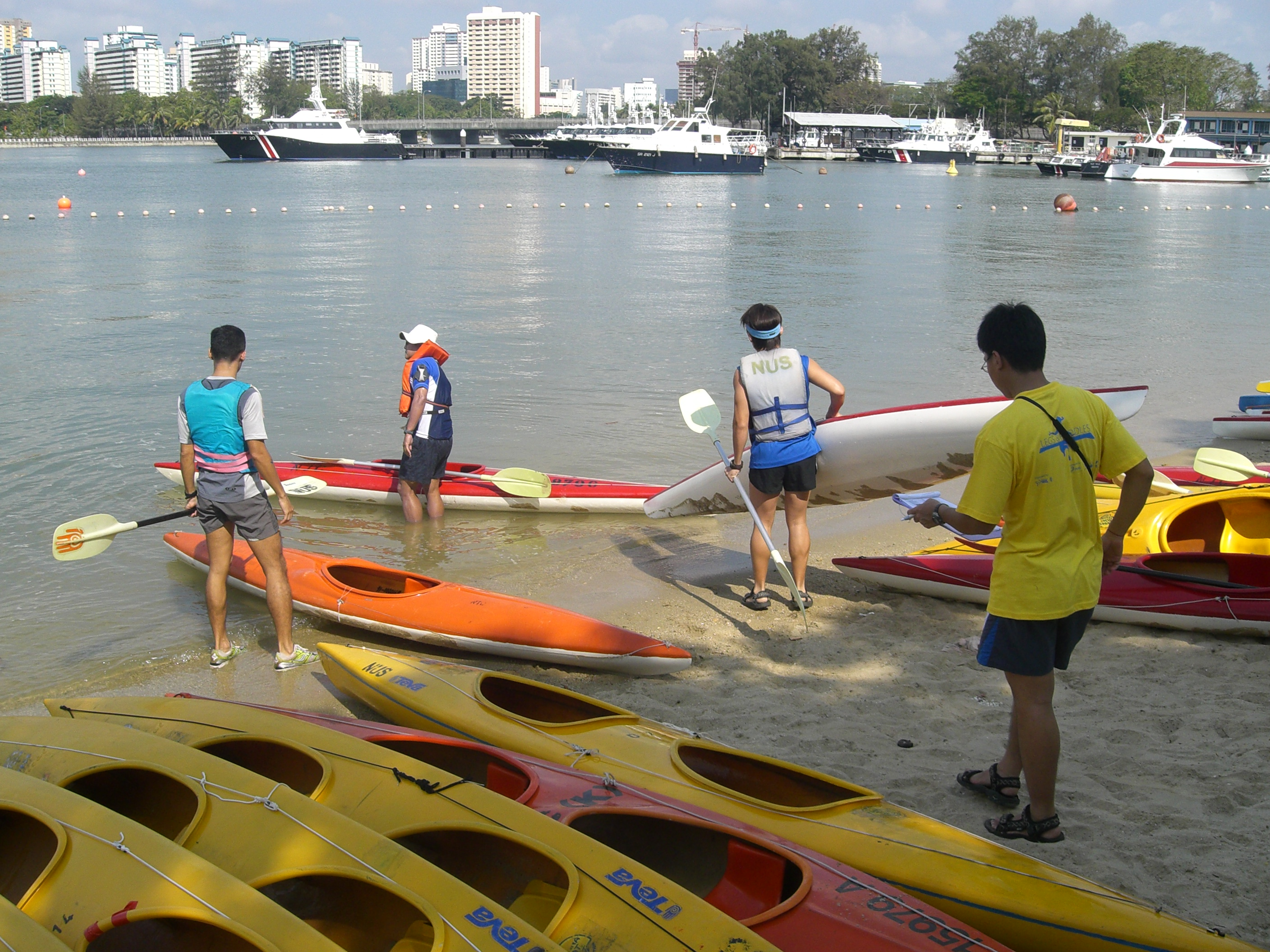 Fiberglass kayaks. Legs & Paddles 2006, 12 March, Singapore.